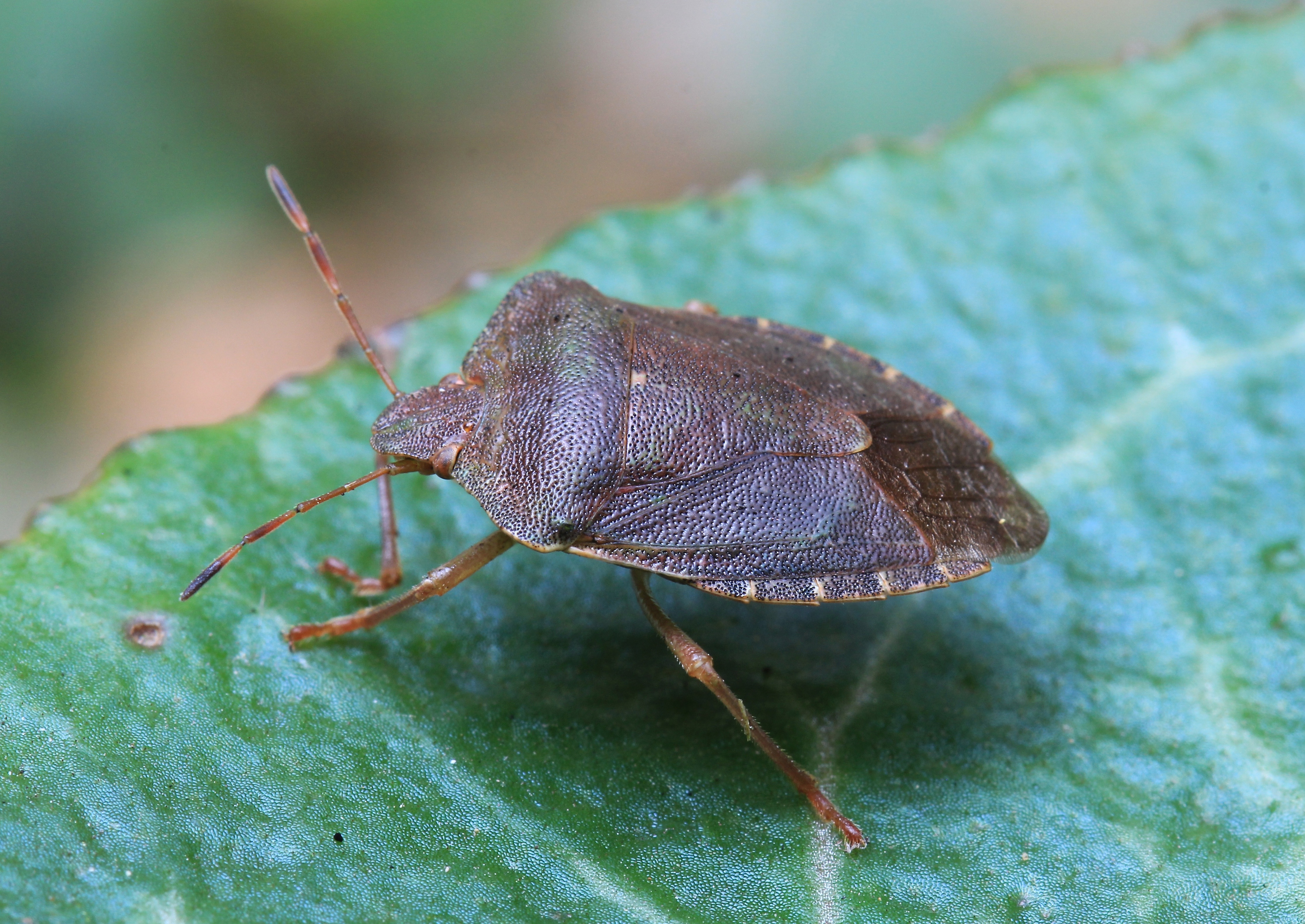 Palomena prasina, Common Green Shield Bug, winter adult. Taken in the London Borough of Enfield, UK. Id from